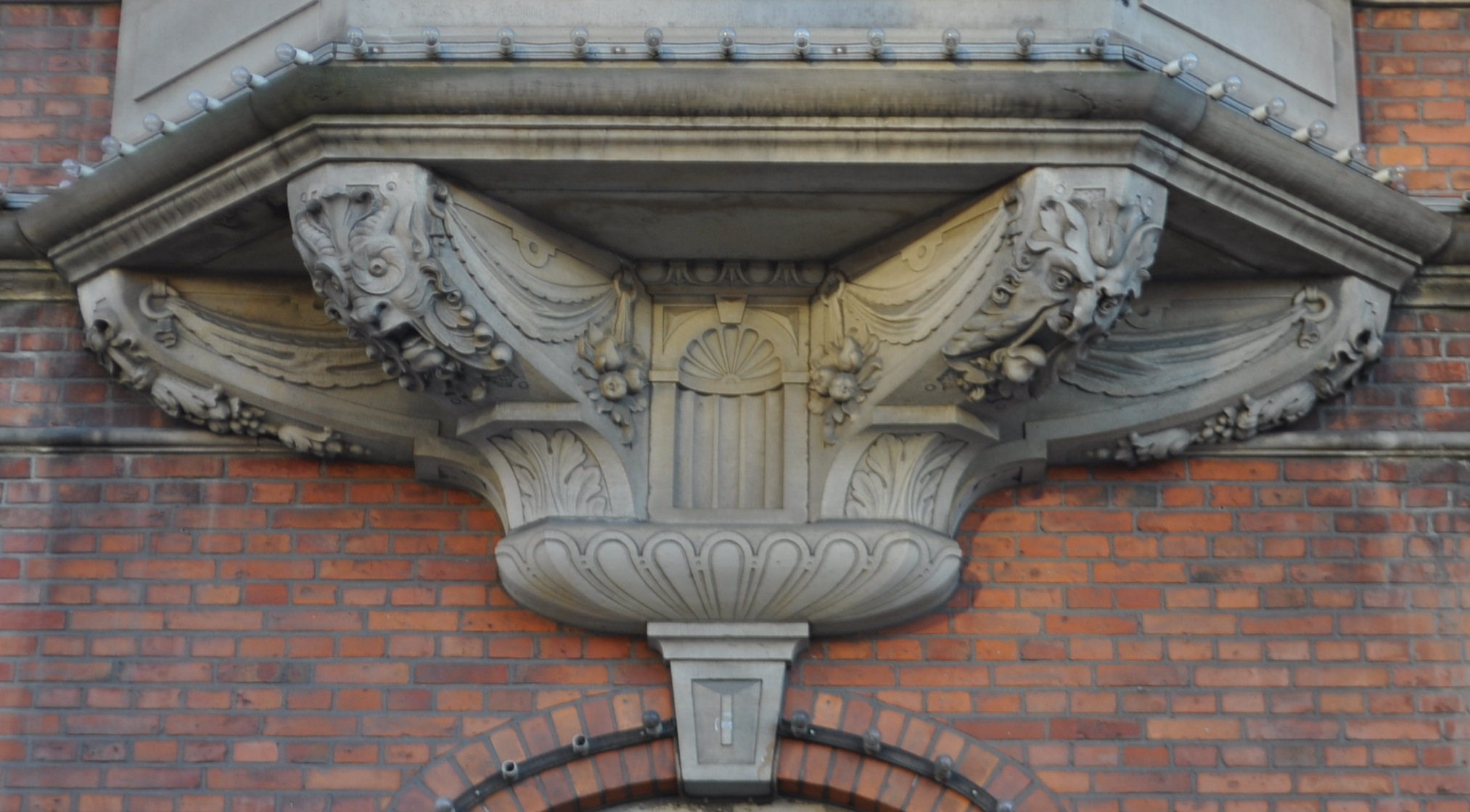 H.C. Andersenslottet in Copenhagen, photographed 2011-12.27.